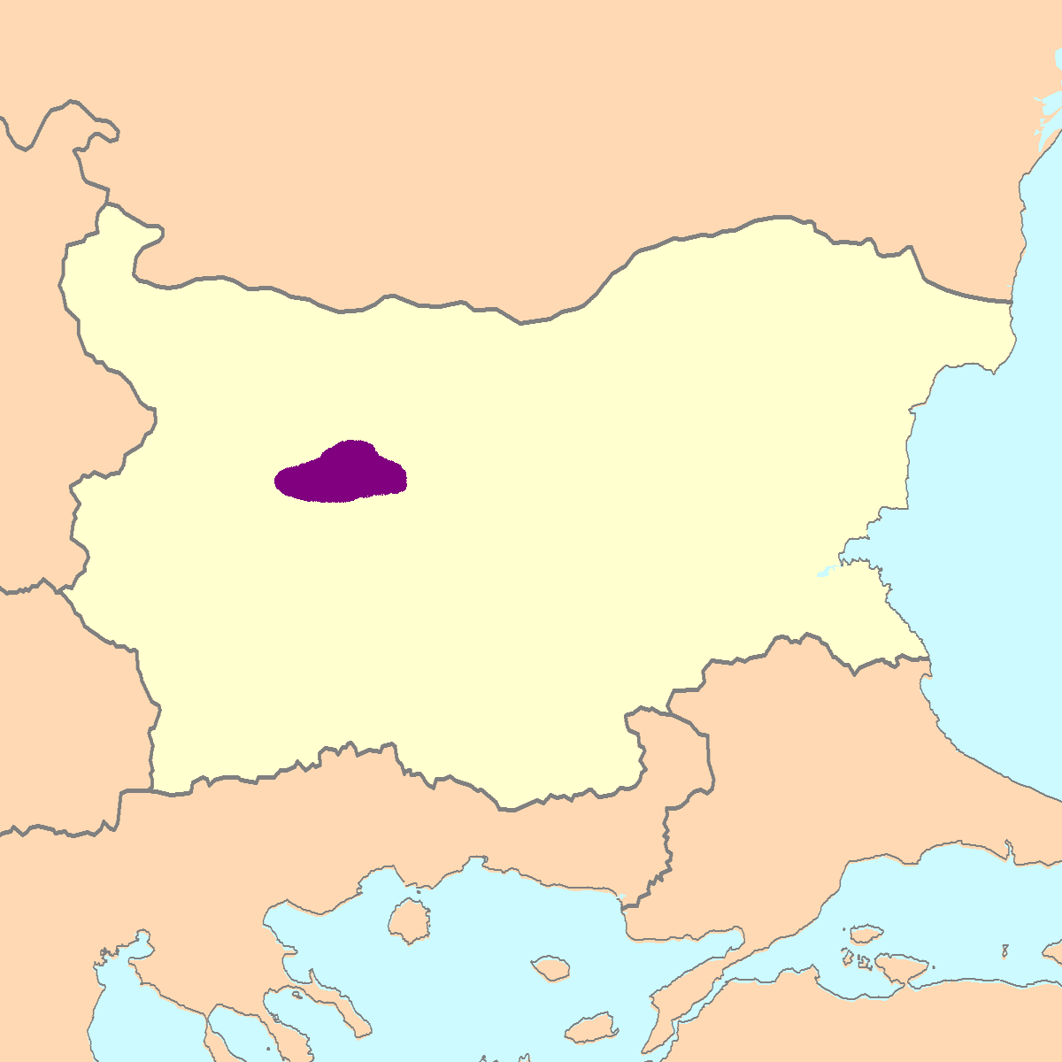 Teteven Sheep area of distribution